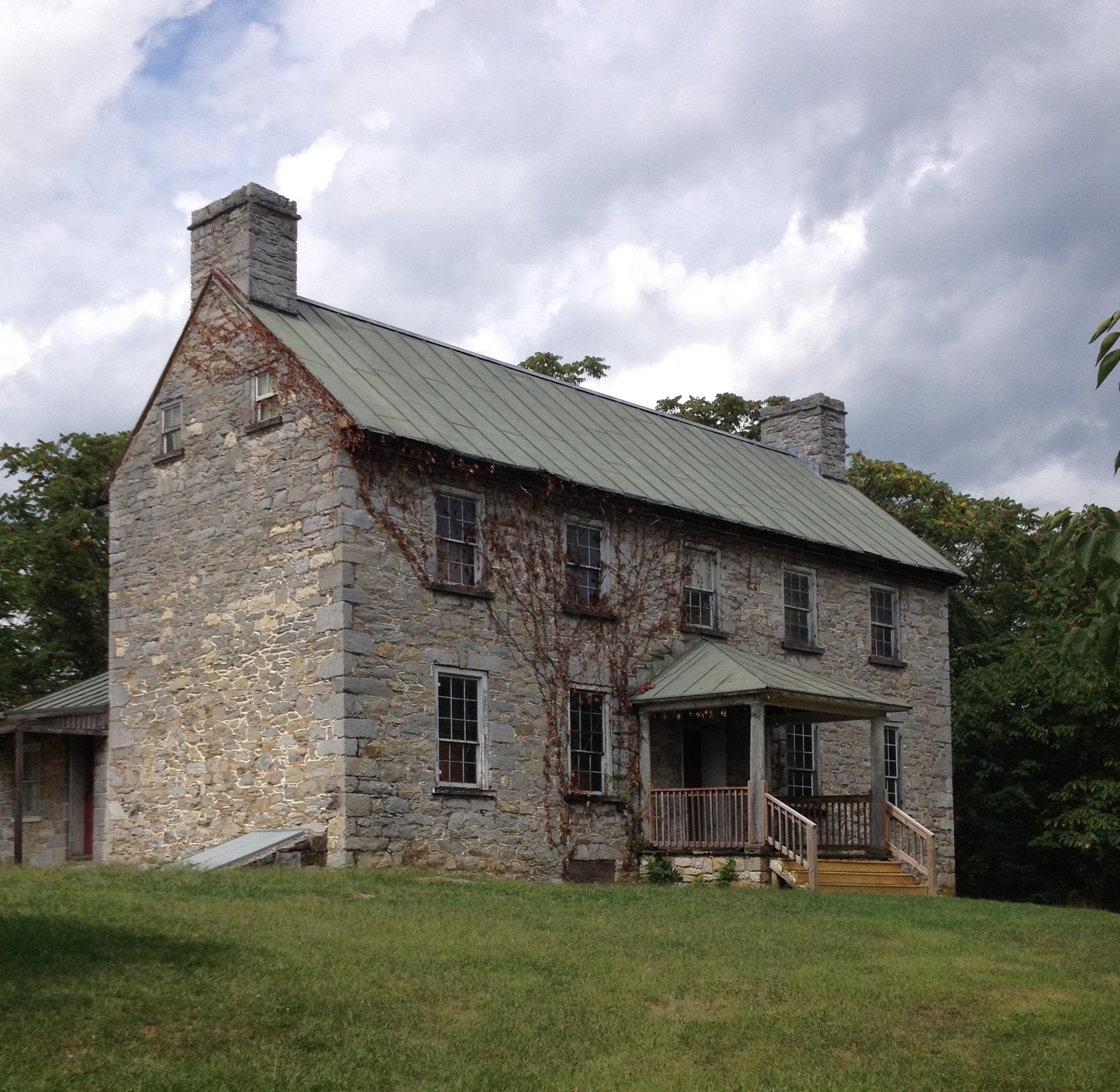 West Virginia, Christian Allemong House. Wikidata has entry Q5109273 with data related to this item.